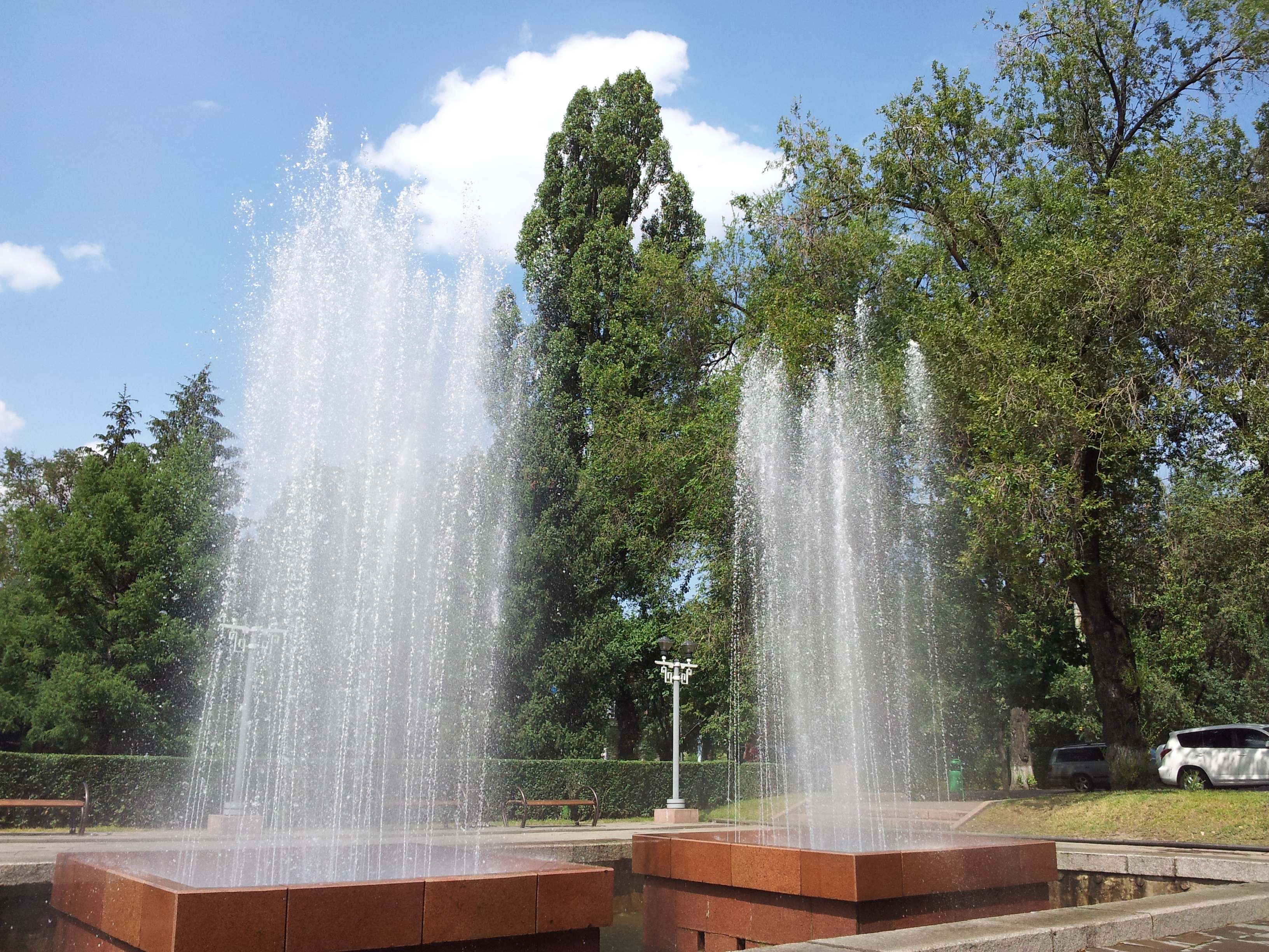 the fountain near Kunaev monument in Almaty